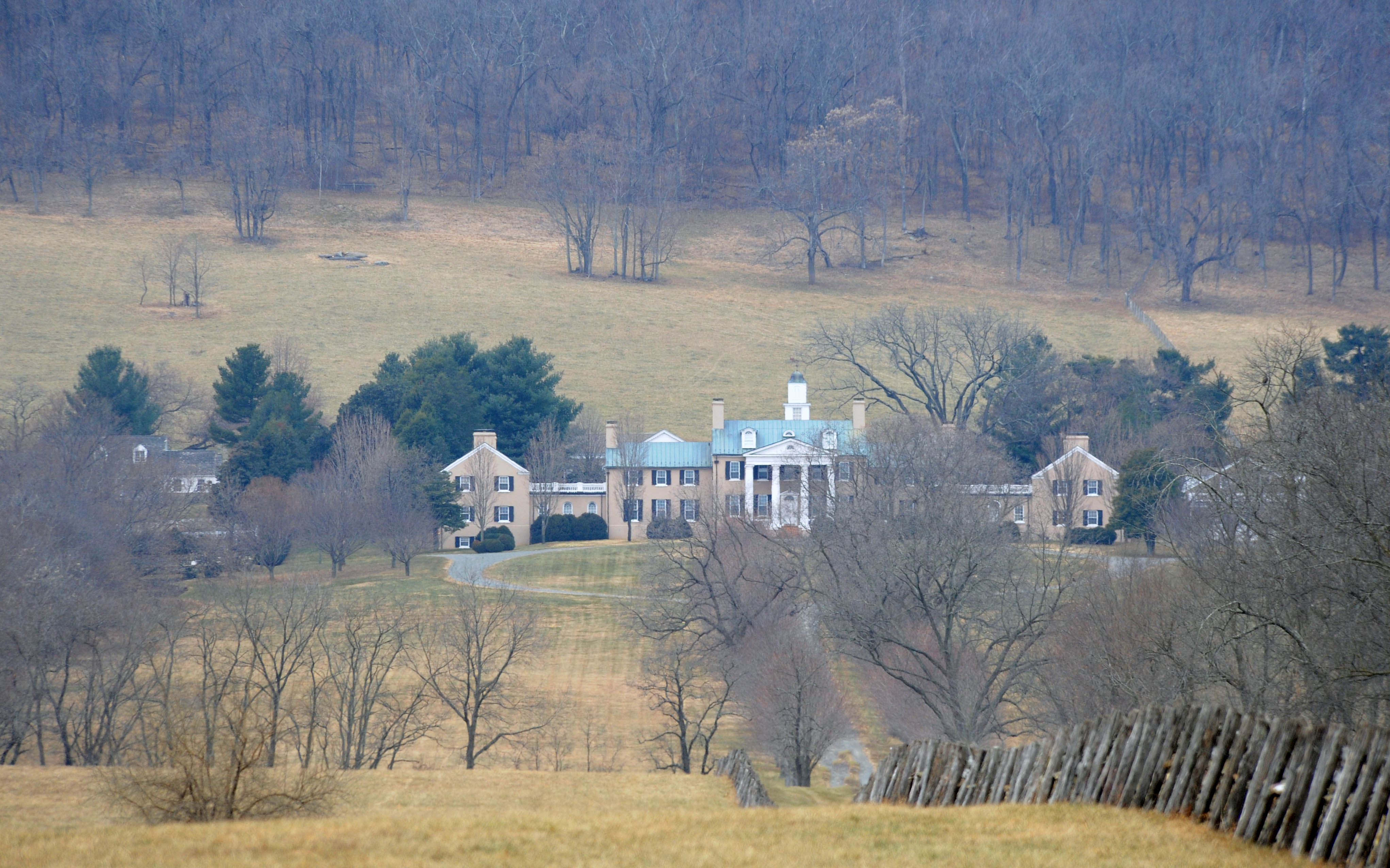 TELEPHOTO PICTURE OF THE ESTATES WHICH IS NOW A POLO TRAINING GROUND